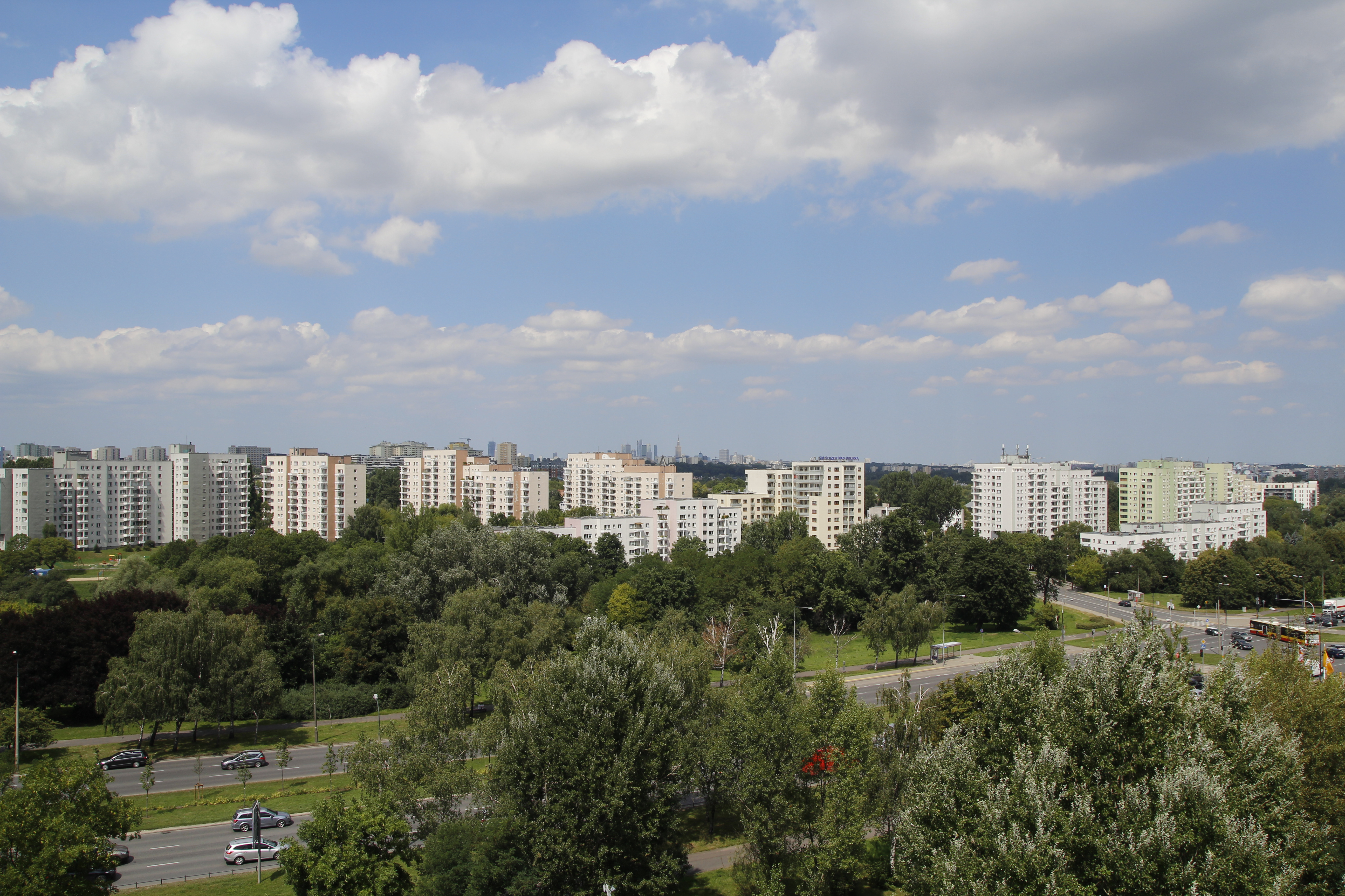 View to Sluzew (Mokotow) from Fort 8 building